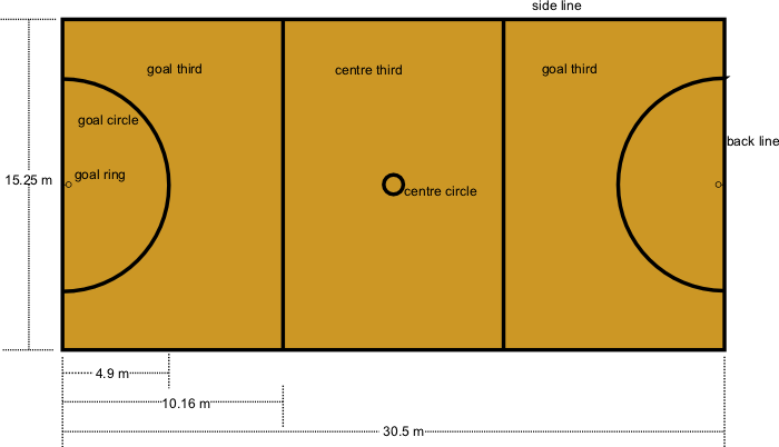 Netball court diagram